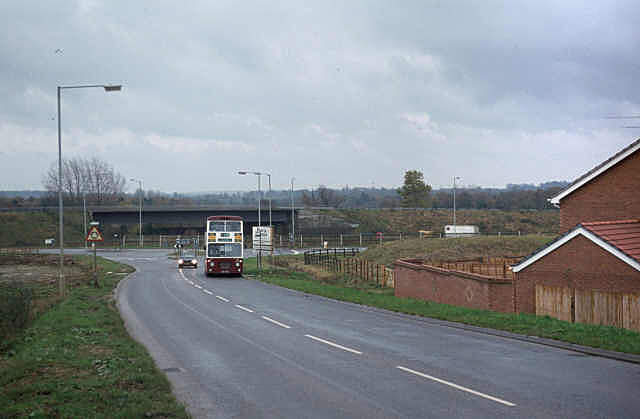 Lower Earley, 1982, near to Shinfield, Wokingham, Great Britain. At this stage the area was still very much under development. This is the bottom of Beeston Way at its junction with Lower Earley Way. The bridge in the background was built to carry Cutbush Lane over the M4; it was relegated to foot and cycle traffic with the development of Lower Earley Way as a major local distributor road.